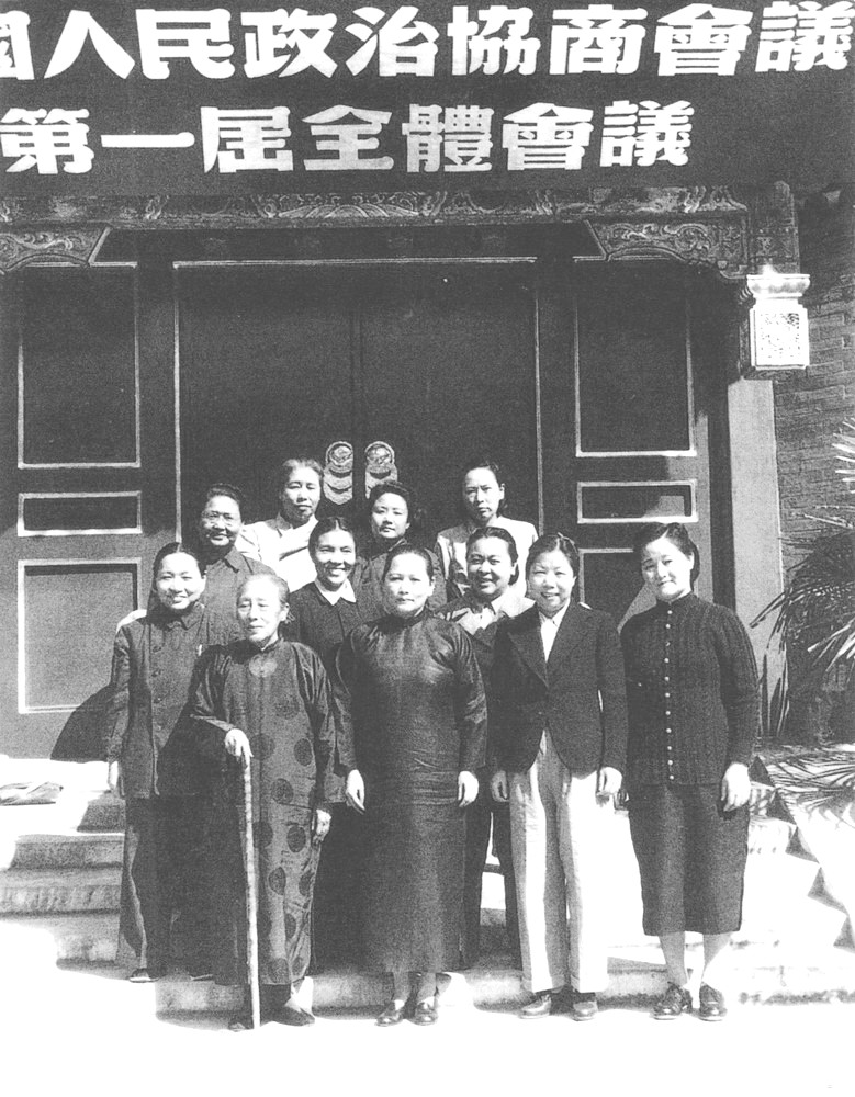 Soong Ching-ling and other female members at Chinese First People's Political Consultative Conference